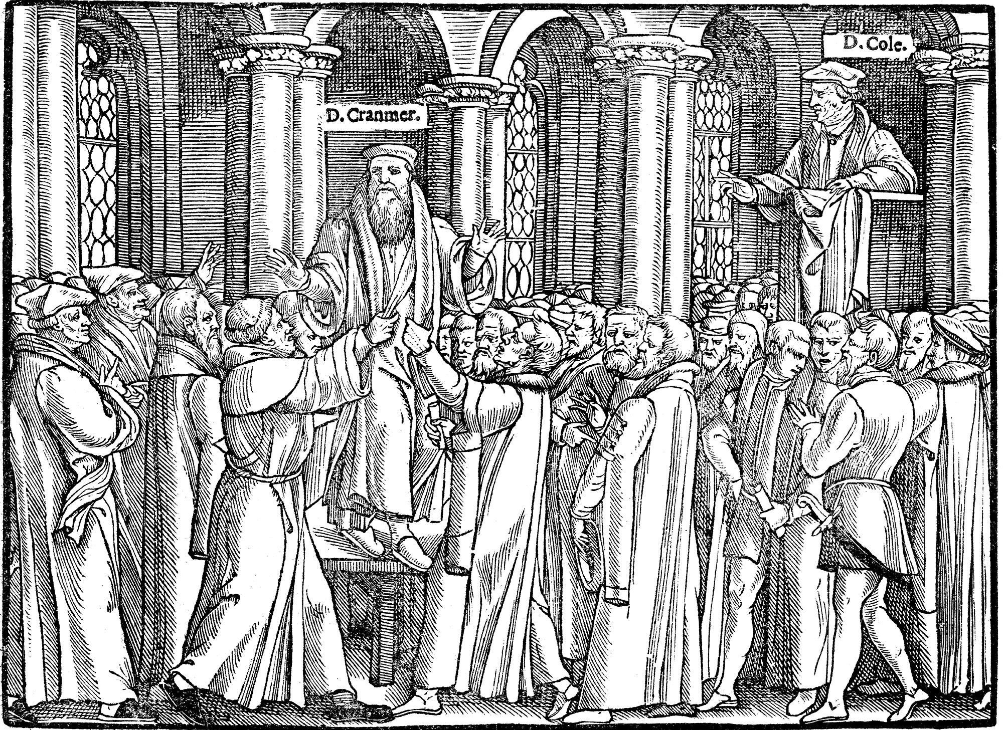 The persecution of Dr. Thomas Cranmer, a leader of the English Reformation.